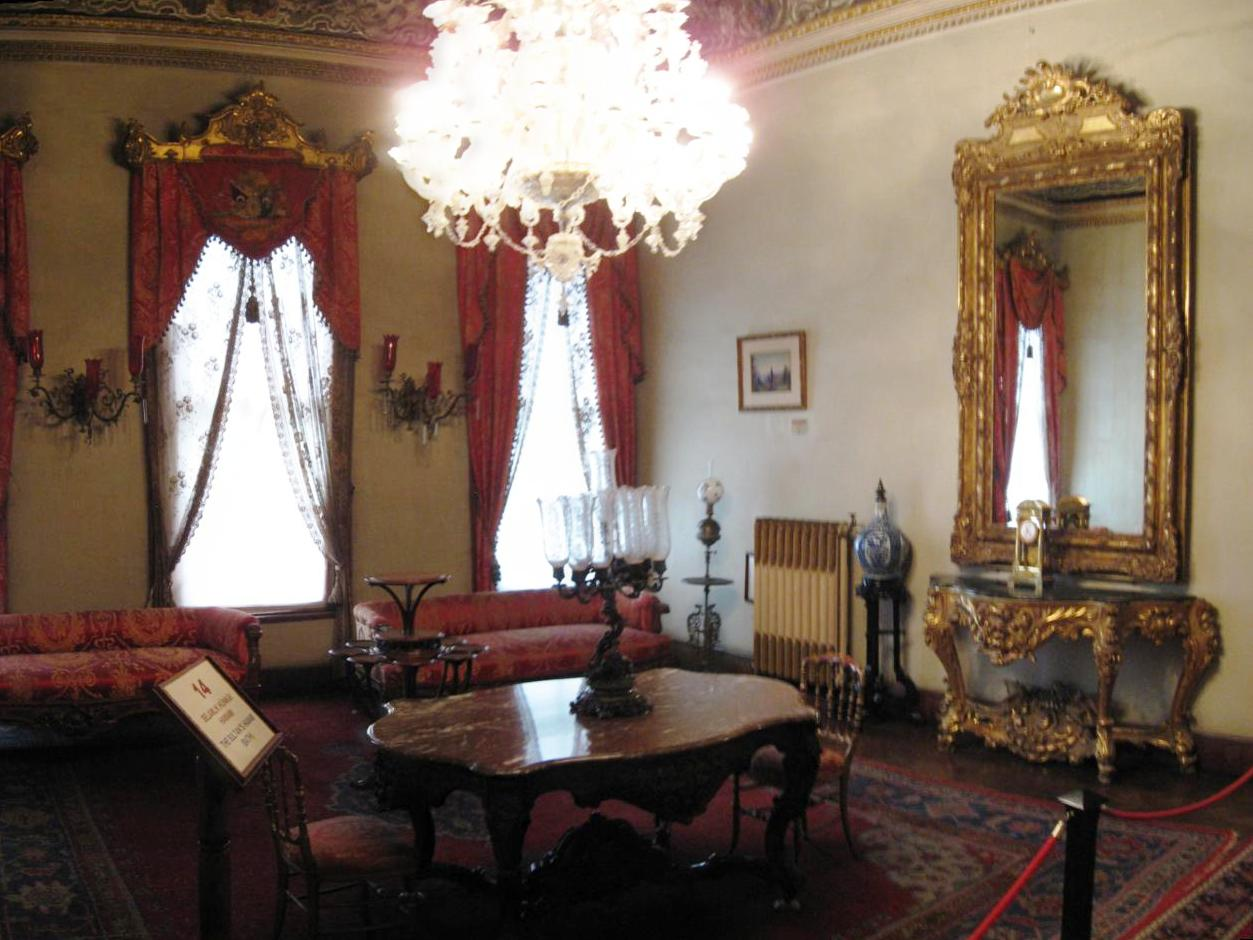 The salon before the Sultan's Hamam (Selamlık Hünkâr Hamamı) in Dolmabahçe Palace, used by the sultan to change and relax before and after the bath. (#14 on the tour.)